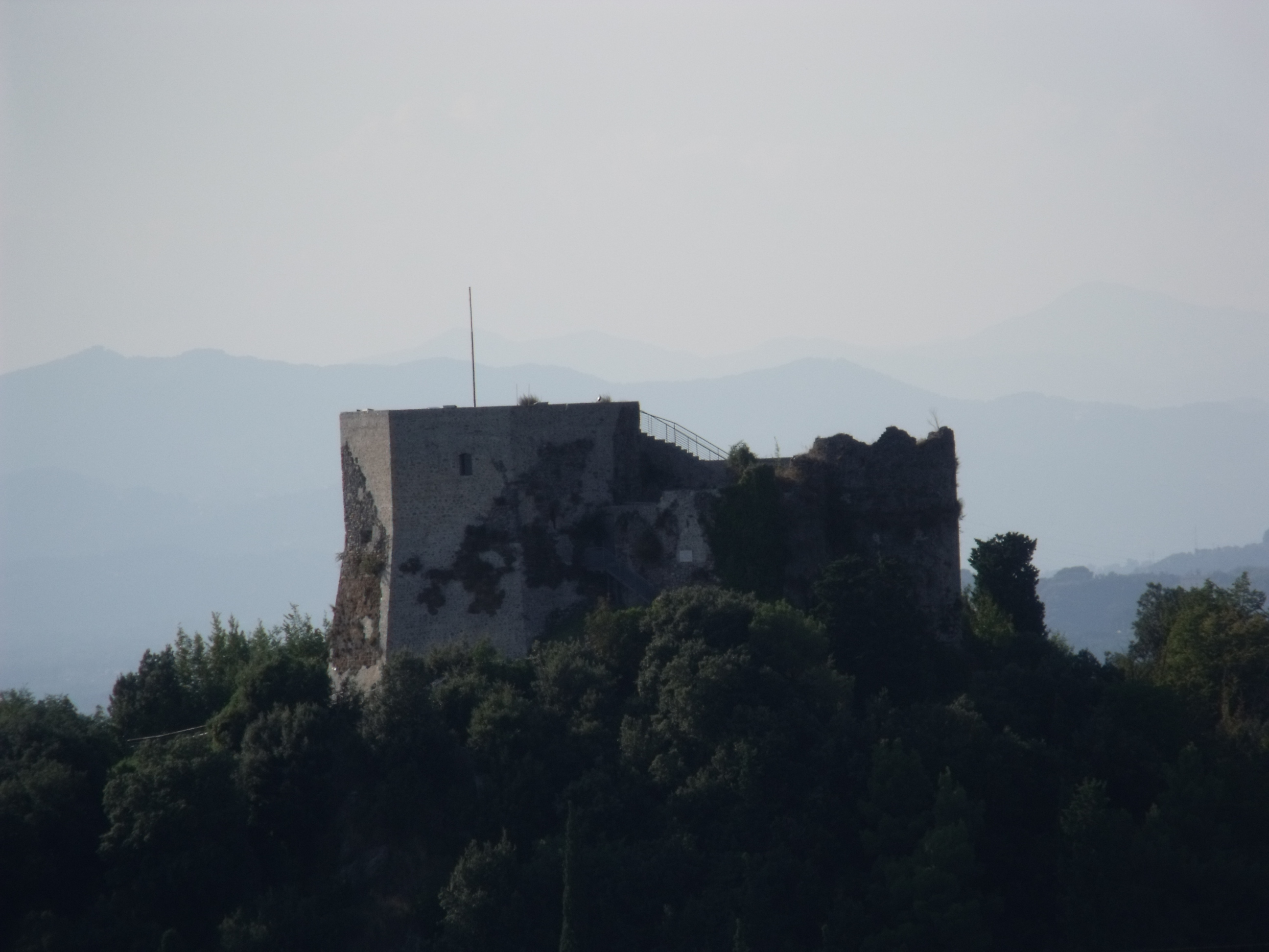 Castle Castello Aghinolfi in Montignoso, Province of Massa Carrara, Tuscany, Italy